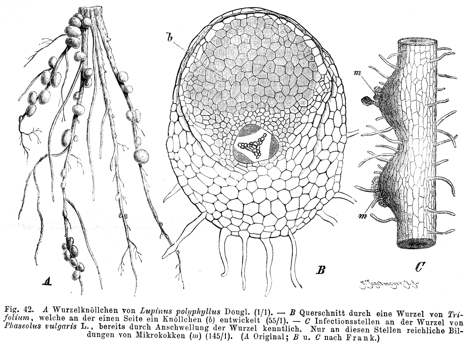 Illustration from book